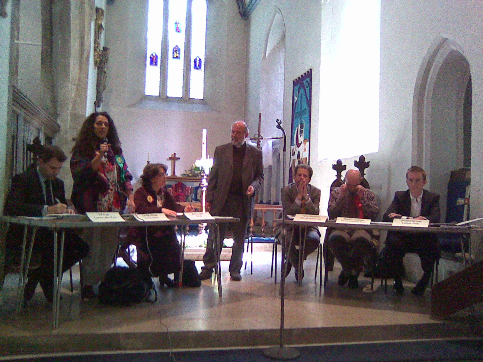 Oxford East parliamentary election 2010 candidates, panel, at hustings St Michael-at-the-Northgate Church (Andrew Smith represented by colleague Richard Stevens) with chair the Very Revd Bob Wilkes.